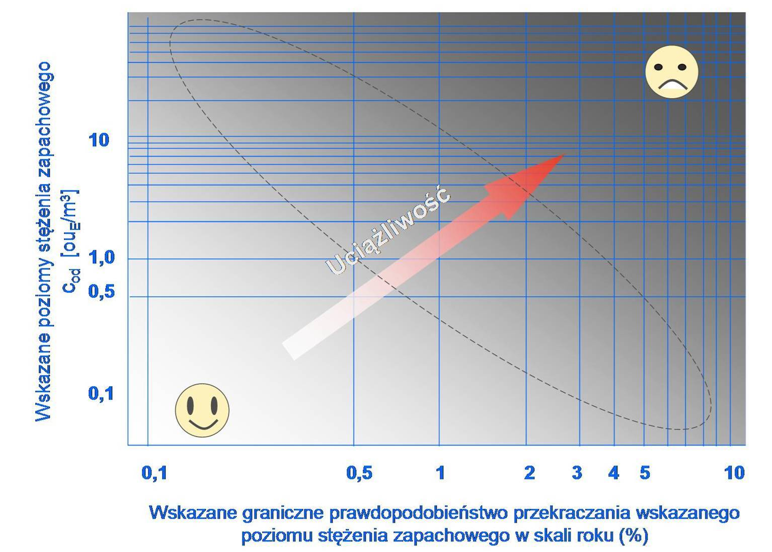 Odour Air Standards, fig. 1